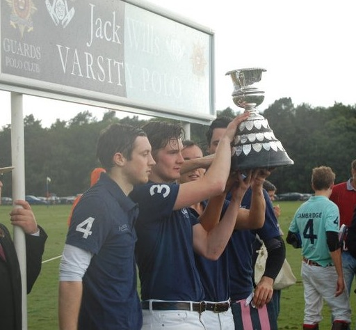 Oxford beats Cambridge 2011.